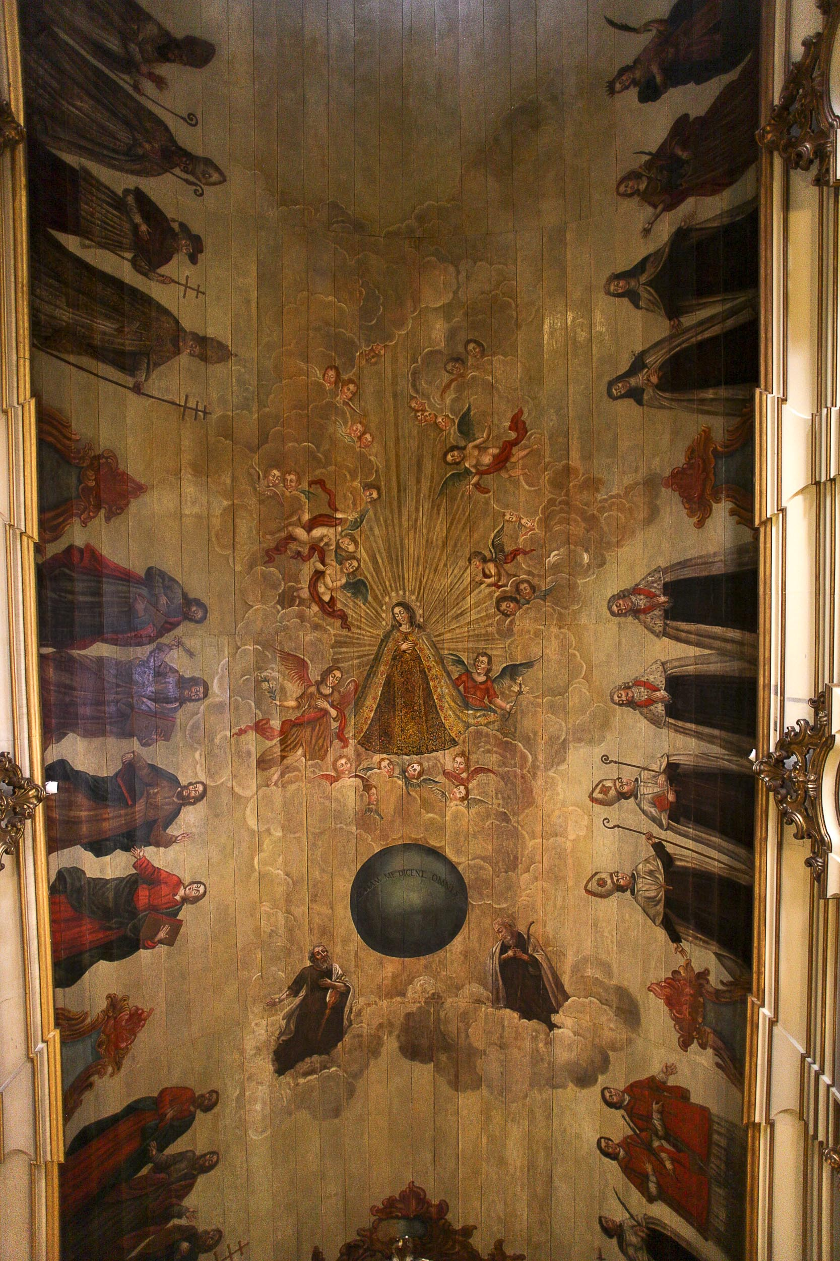 Altar and internal views of the Church of the Carmelite Third Order in the central region of São Paulo, near the squares of the Sé, João Mendes and Clovis Bevilacqua. It was established in the second half of Sec.XVII and subsequently demolished early secXVIII. The present church is 1758 and its Construction Builder is rammed earth. The Carmelite church houses a set of São Paulo colonial art, especially the paintings of the chancel and the choir ceilings, authored by Itu master Frei Jesuíno of Mount Carmel